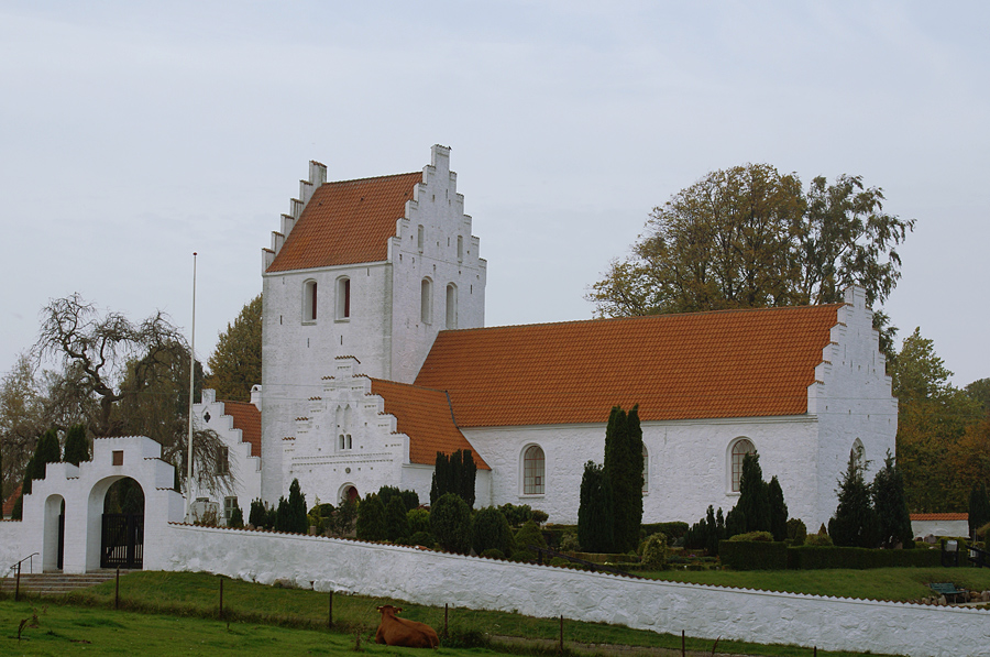 Skamstrup Church, Holbæk Kommune, Denmark